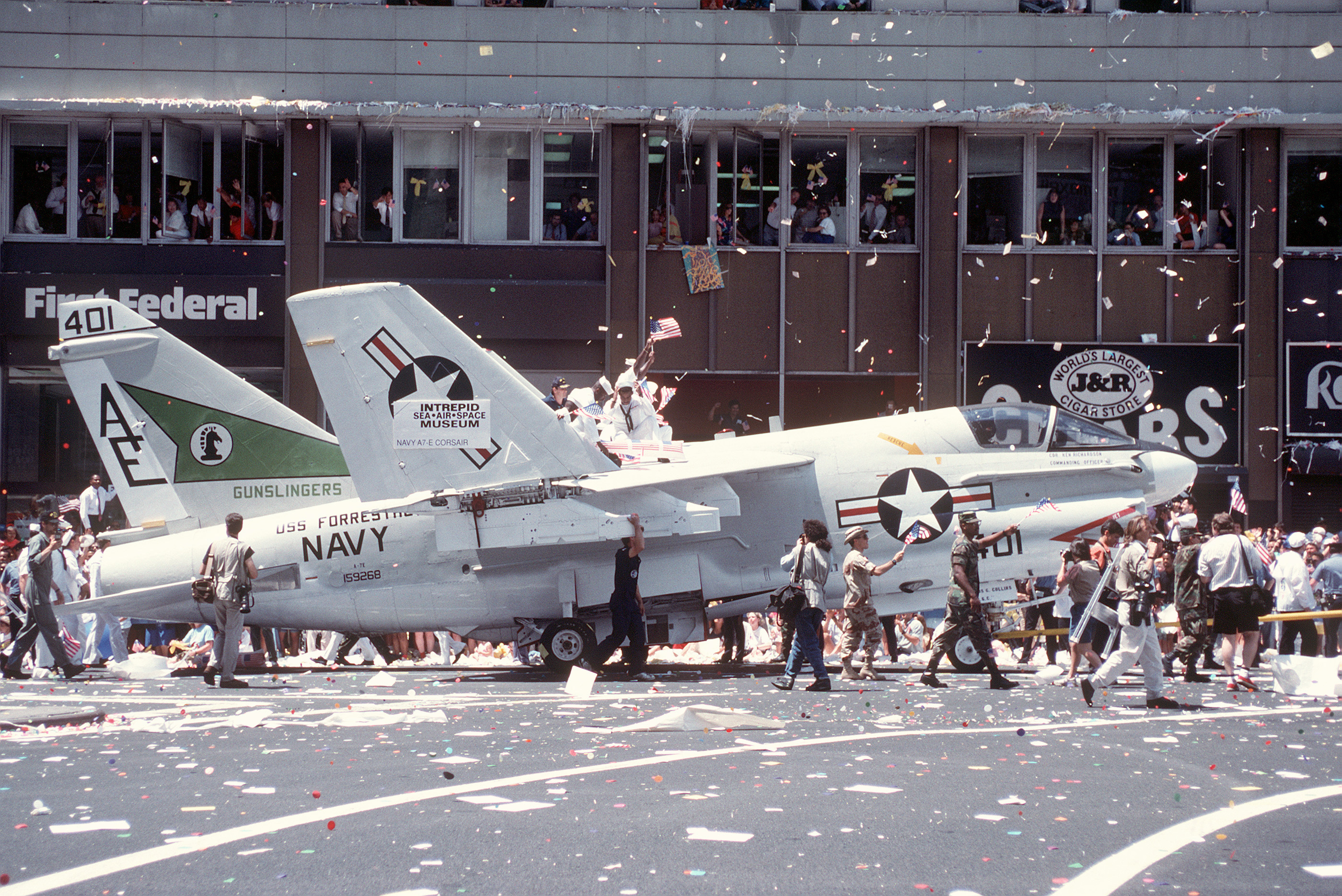 Sailors ride atop an A-7E Corsair aircraft as it is pulled through the streets during the New York City's victory parade for the returning veterans of Operation Desert Shield and Operation Desert Storm.